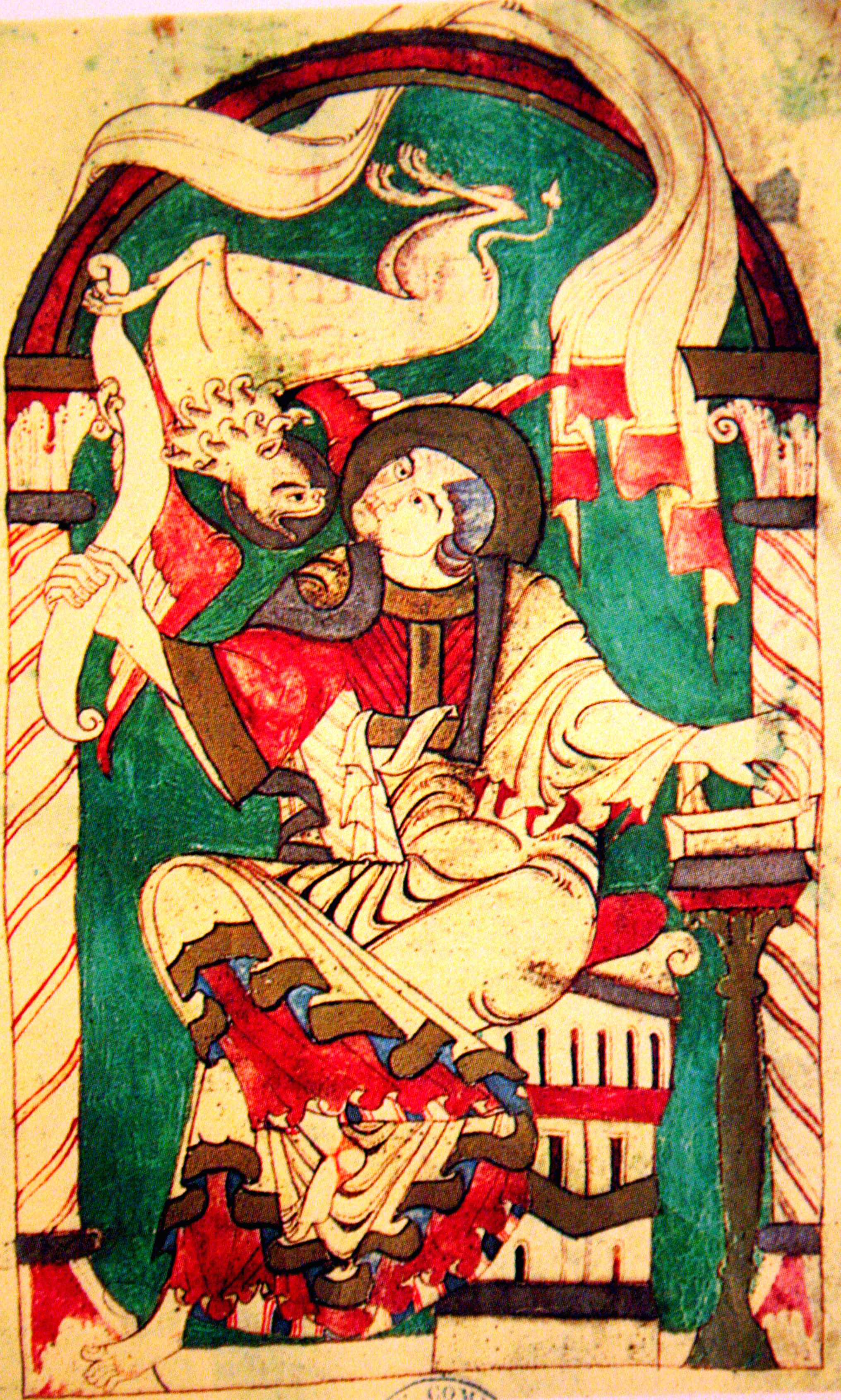 St Mark in the Corbei Gospels